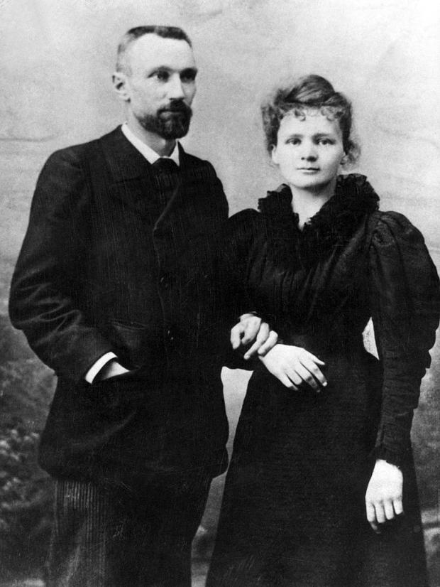 French physicist Pierre Curie is often overlooked in favor of Marie Curie, his brilliant student and later wife. Together they discovered radium and polonium, and did extensive research into radioactivity. Pierre, Marie, and Henri Becquerel jointly won the 1903 Nobel Prize in Physics for their research. Curie might have gone onto many further discoveries, but he was killed in 1906 when a horse-drawn cart ran over him in Paris. If he had lived longer, Curie might have also succumbed to illness caused by radiation, as did his wife, daughter, and son-in-law—all Nobel Prize winners.